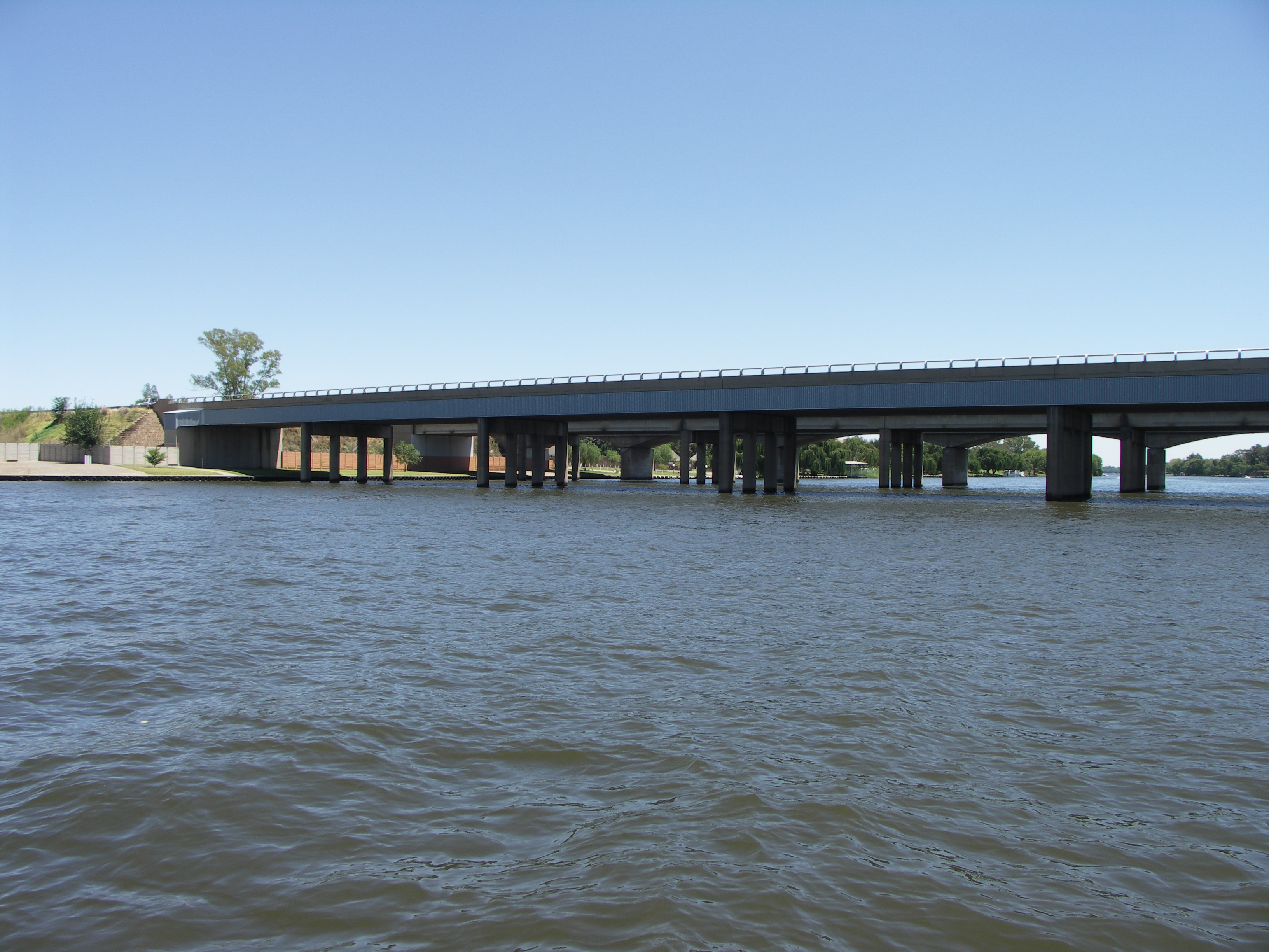 The R57 (Golden Highway) bridge over the Vaal River. Free State, South Africa